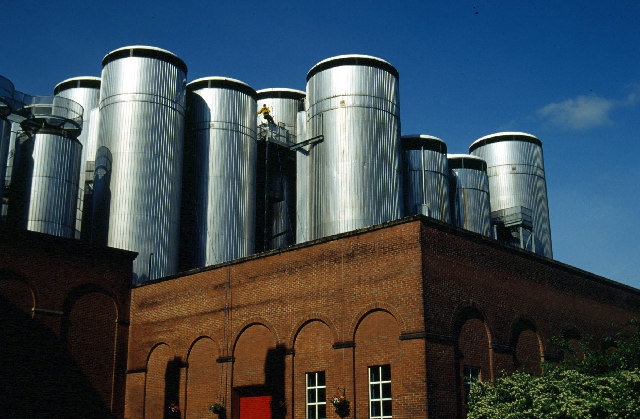 Coors Brewery, Burton upon Trent. Brewing is still a major industry in Burton.